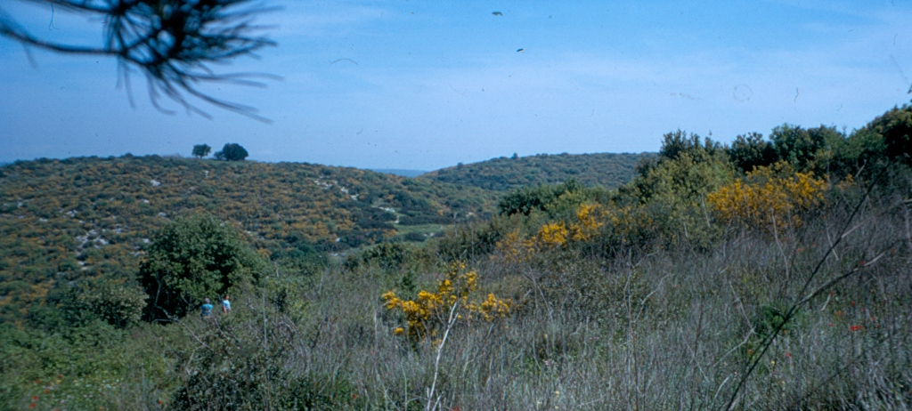 Calicotome_villosa